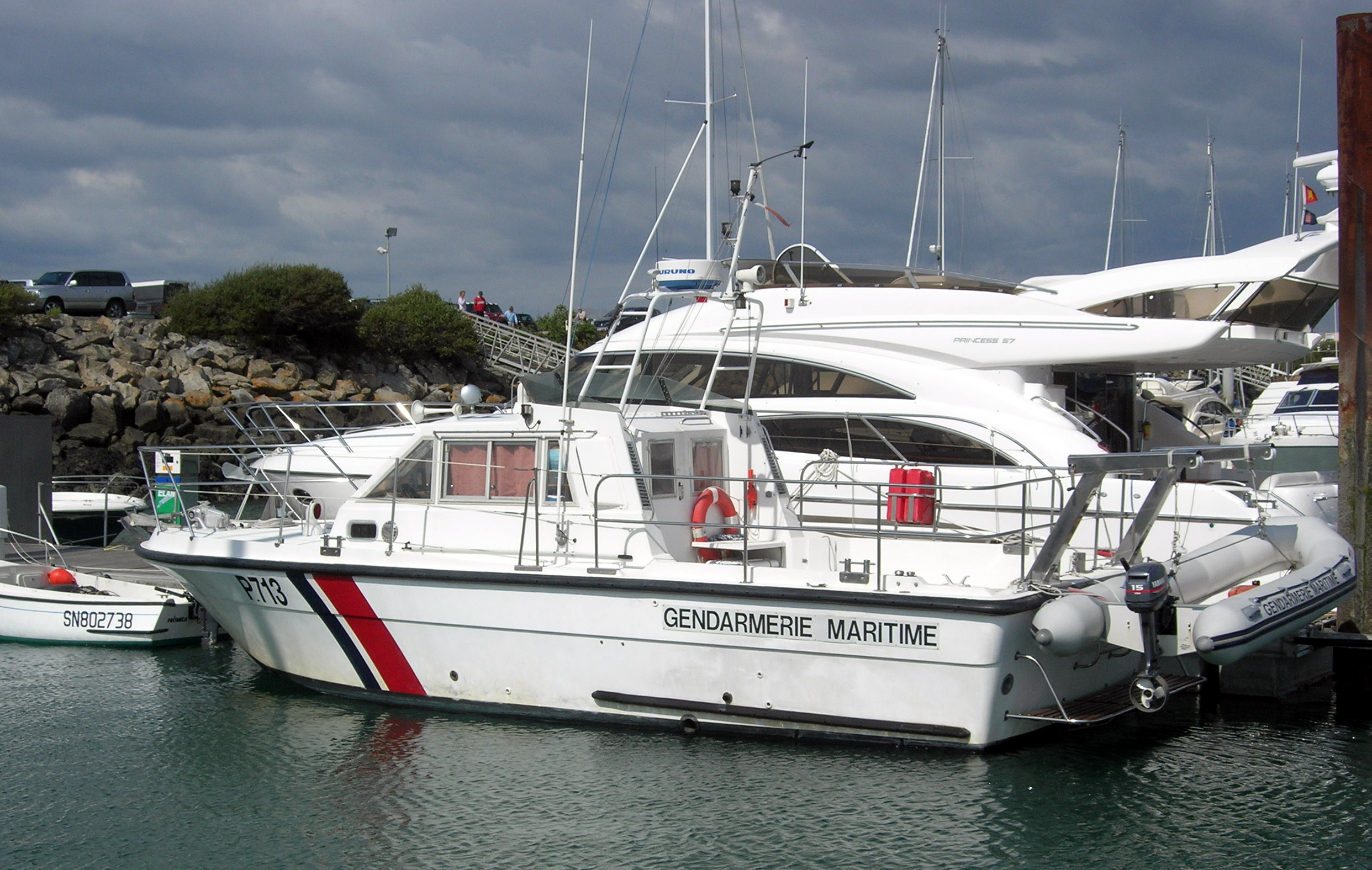 Description =Vedette de la gendarmerie maritime à Pornichet Source =Photo taken by Remi Jouan Date =Aout 2006 Author =Remi Jouan